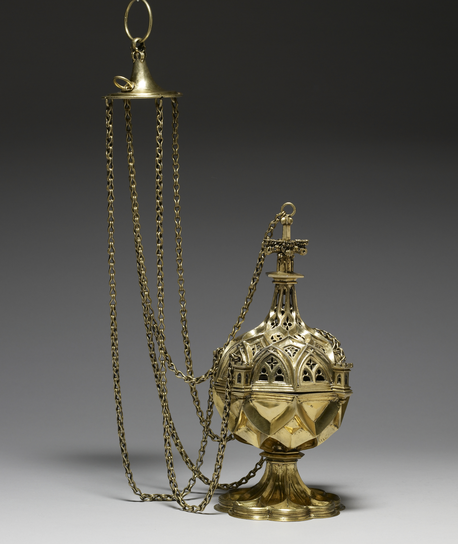 This censer made in Germany is typical of the style popular in western Europe at the end of the fifteenth century. The intersecting raised bands mimic the complex vaulting systems used in late Gothic churches, and the openwork areas are reminiscent of the tracery found in the windows of these buildings.